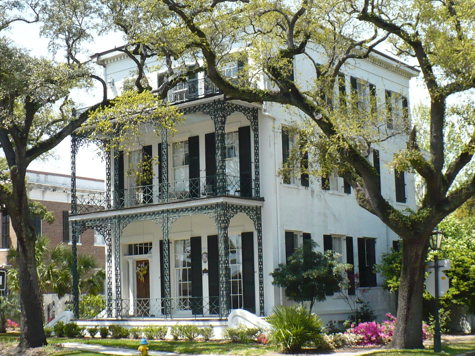 The Williams-Rogers House (building 1 c. 1840's; Buildings 2 & 3 c. 1850's ) within the Detonti Square Historic District. Completely restored by the current owners, the Rogers' family, the third floor included a historically important renovation of the ballroom which once served as the headquarters for the highest officers of the Confederacy while planning the Battle of Mobile. After losing the battle, the home was commandered by Union Officials as well as housing the Red Cross Headquarters for many decades following Reconstruction.Located at 250 Saint Anthony Street in Mobile, Alabama.